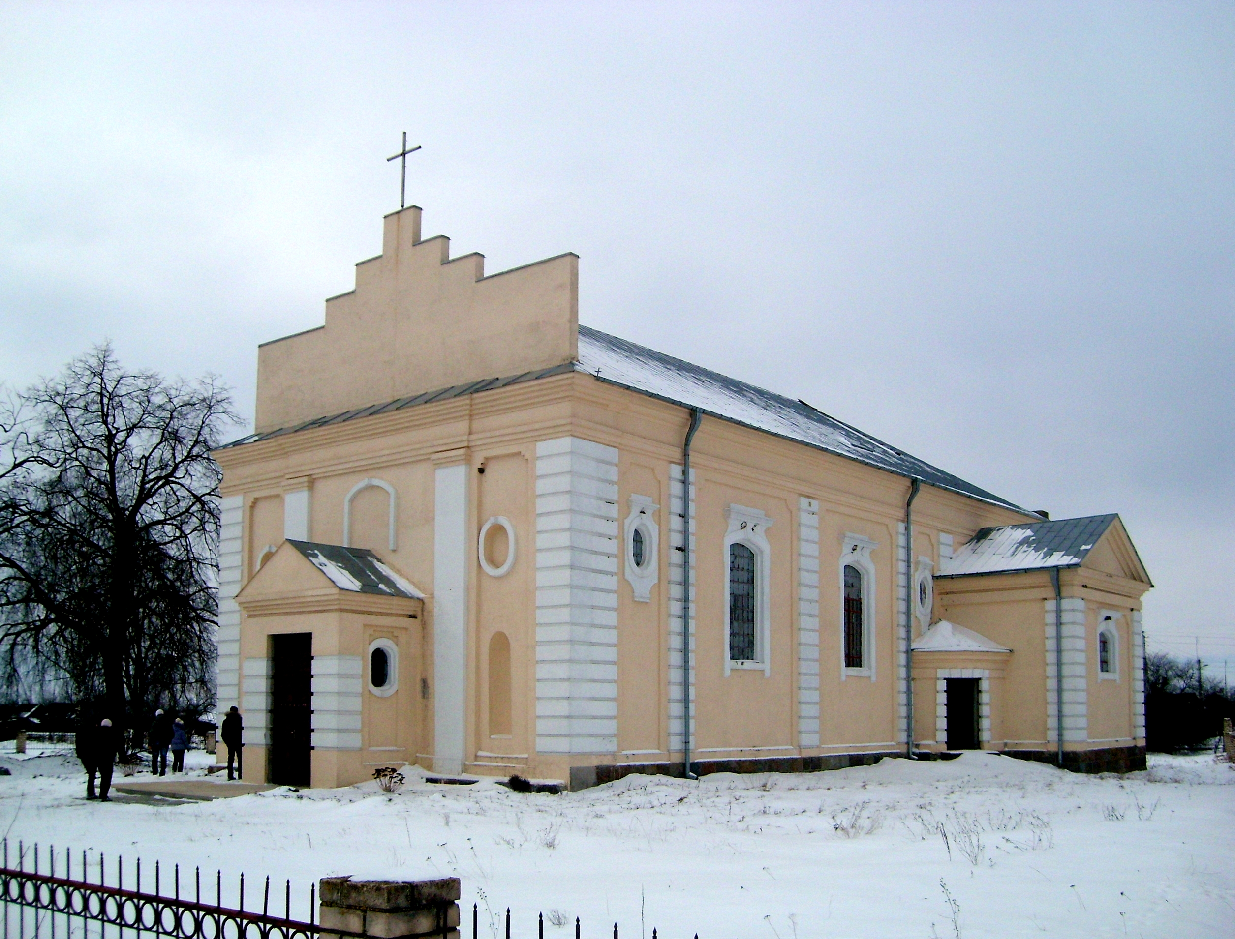 Беларуская (тарашкевіца): Касьцёл. Ліпск This is a photo of Belarusian heritage monument. Reference number: 112Г000478 ( WLM)